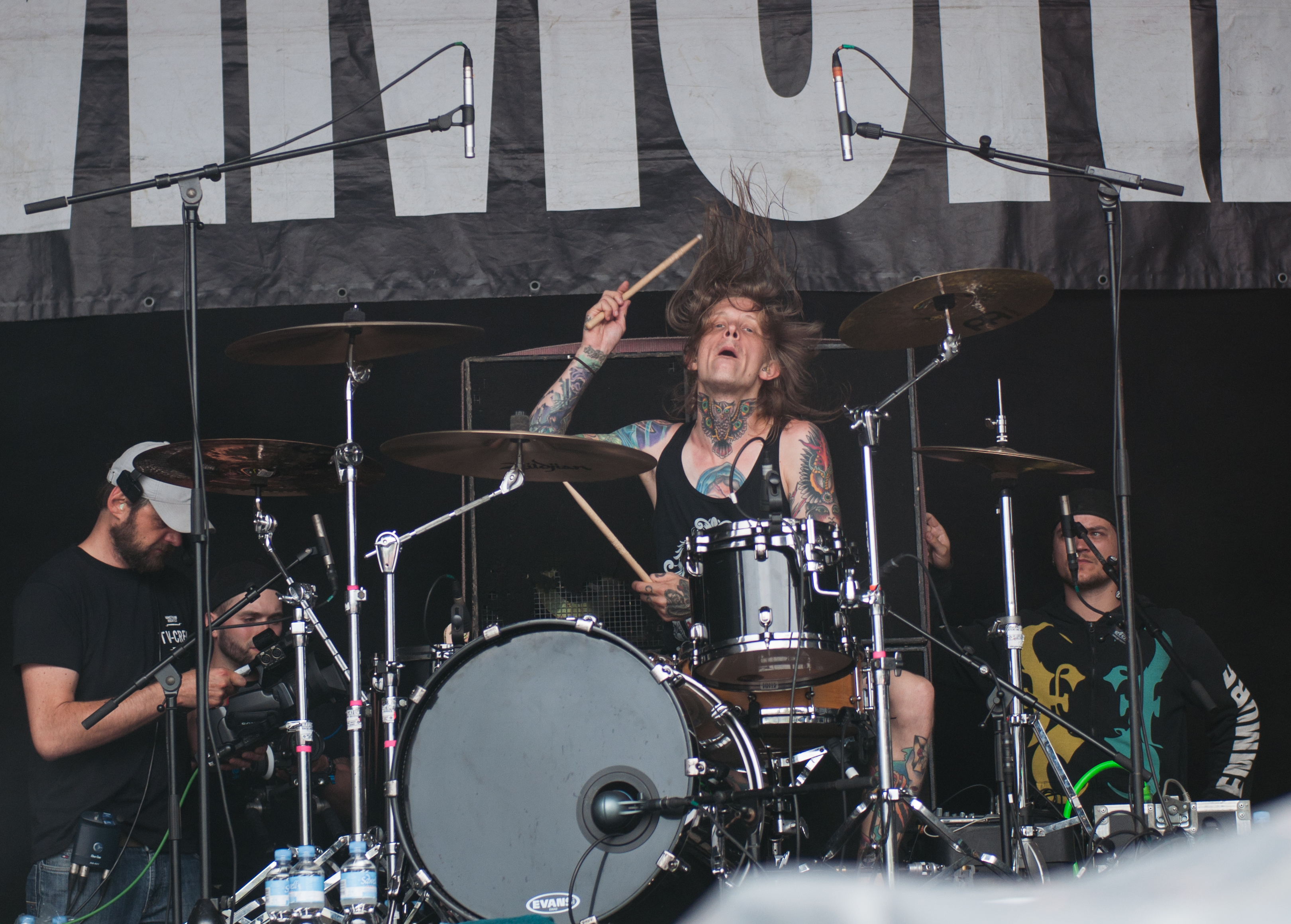 Emmure at Vainstream Rockfest 2014